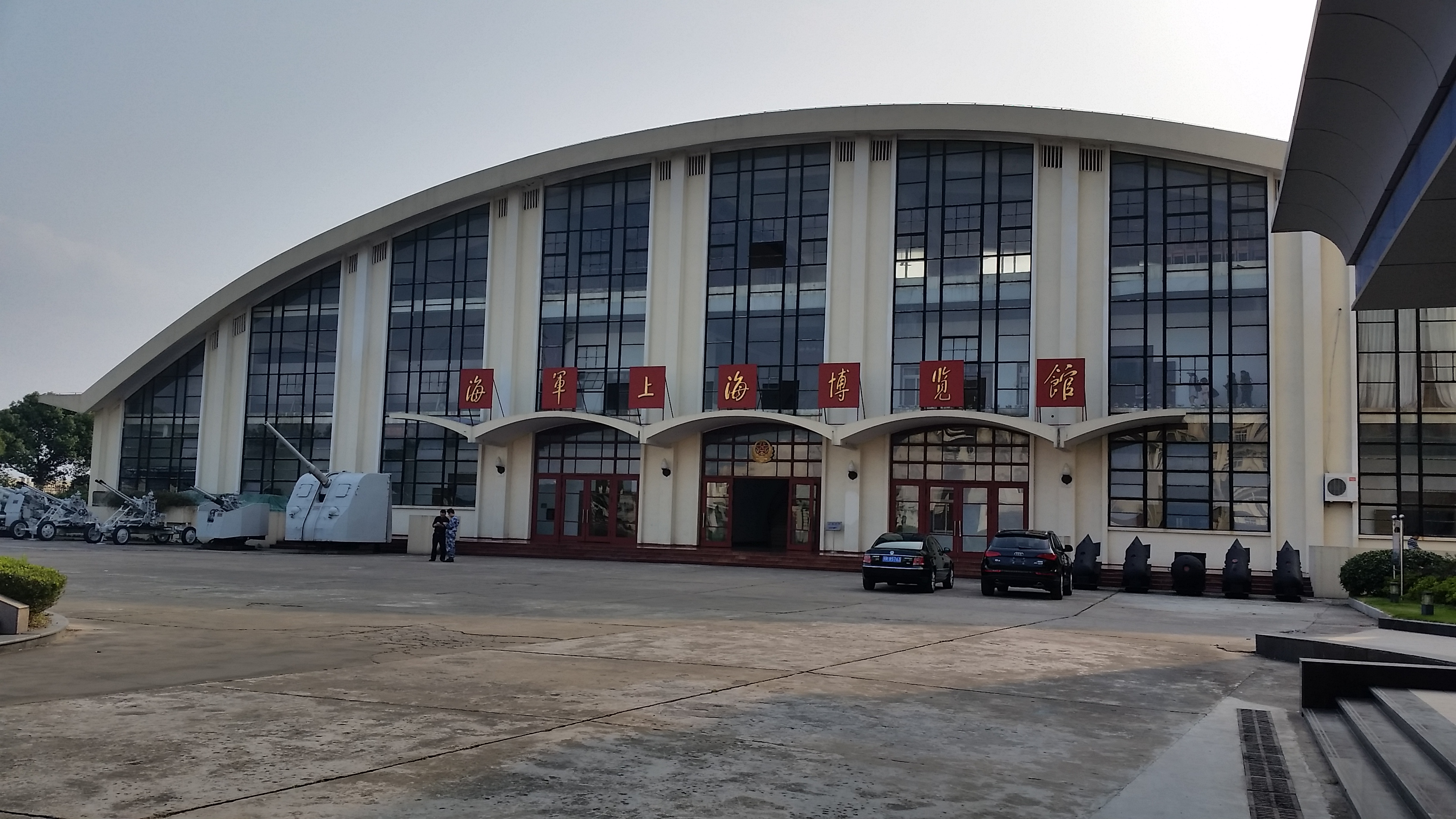 Navy Museum of Shanghai